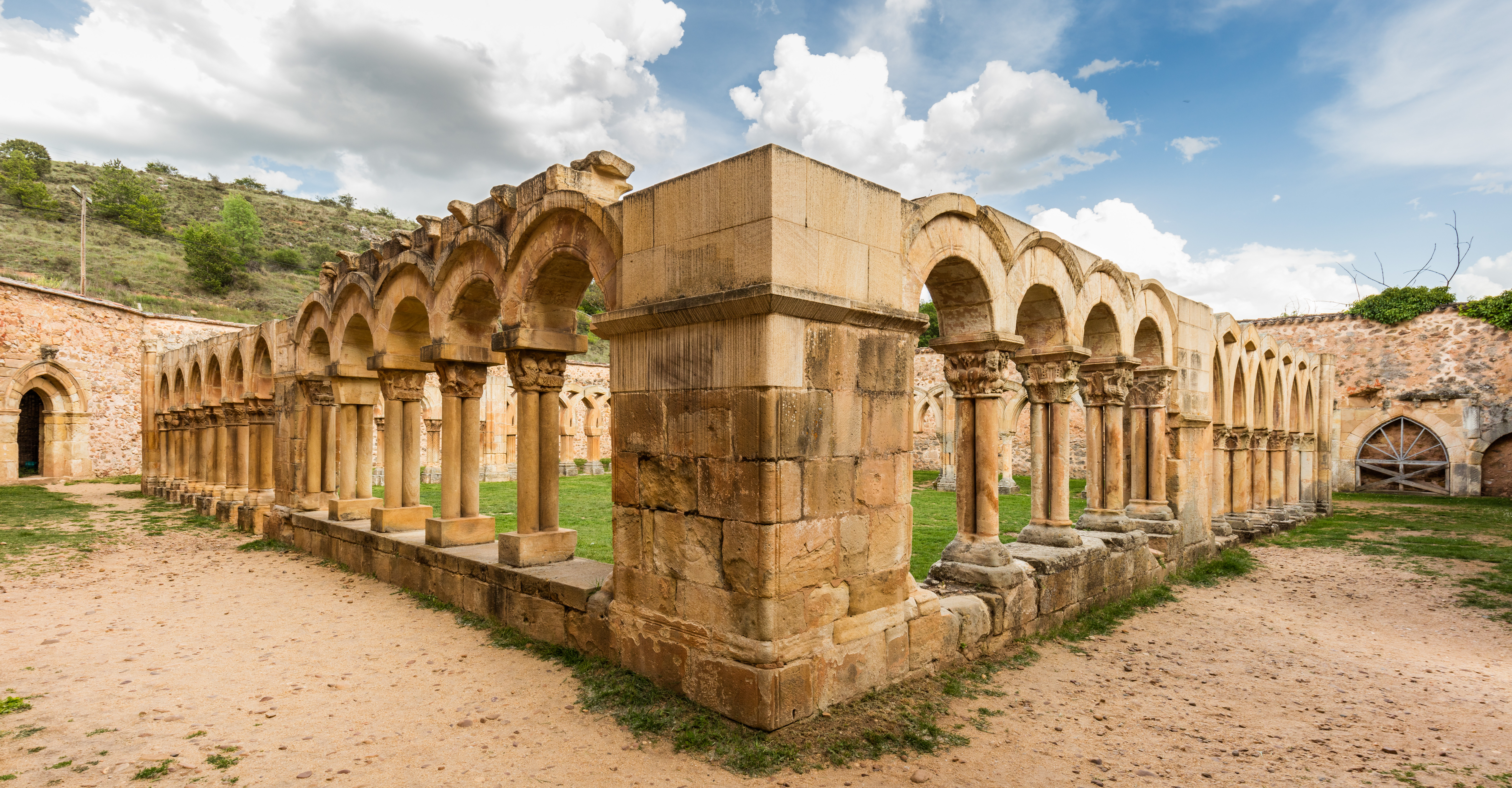 Monastery of San Juan de Duero, Soria, Spain